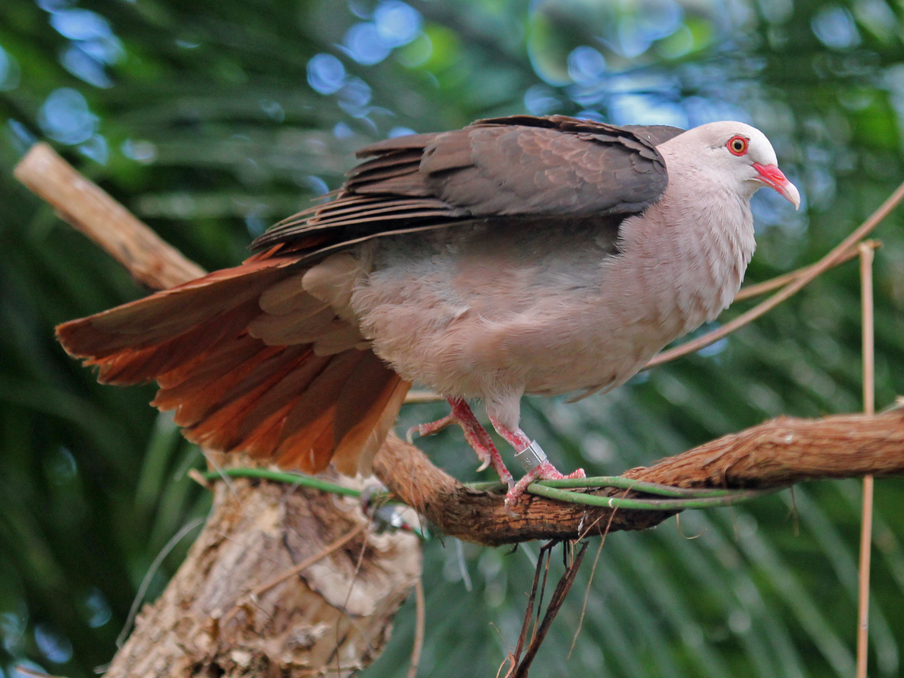 Pink Pigeon - San Diego Zoo. There is much debate about the classification of the Pink Pigeon. It is said to be Columba mayeri, Streptopelia mayeri, Nesoenas mayeri and more!